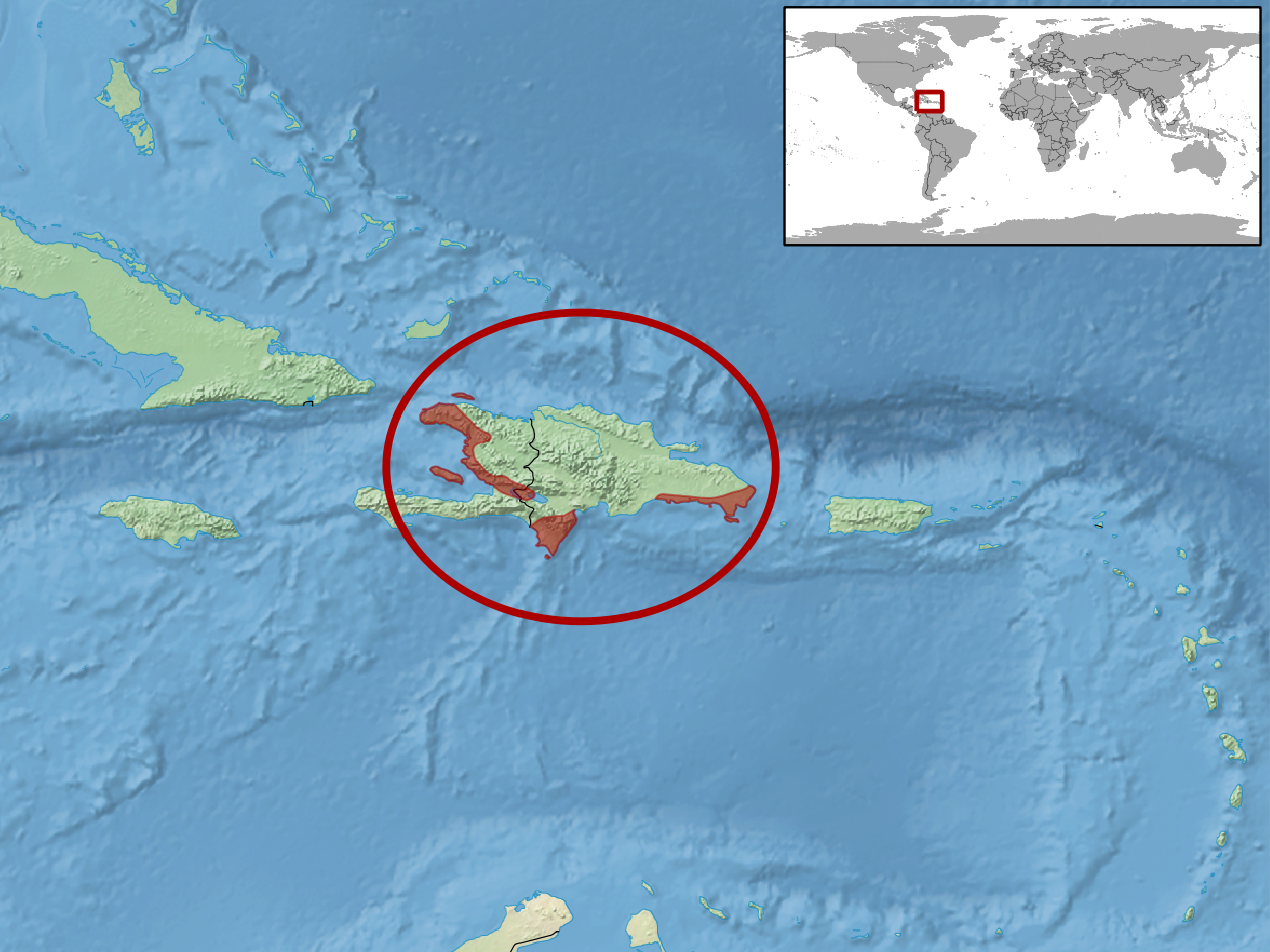 geographic distribution of Celestus curtissi (Native: Dominican Republic; Haiti)